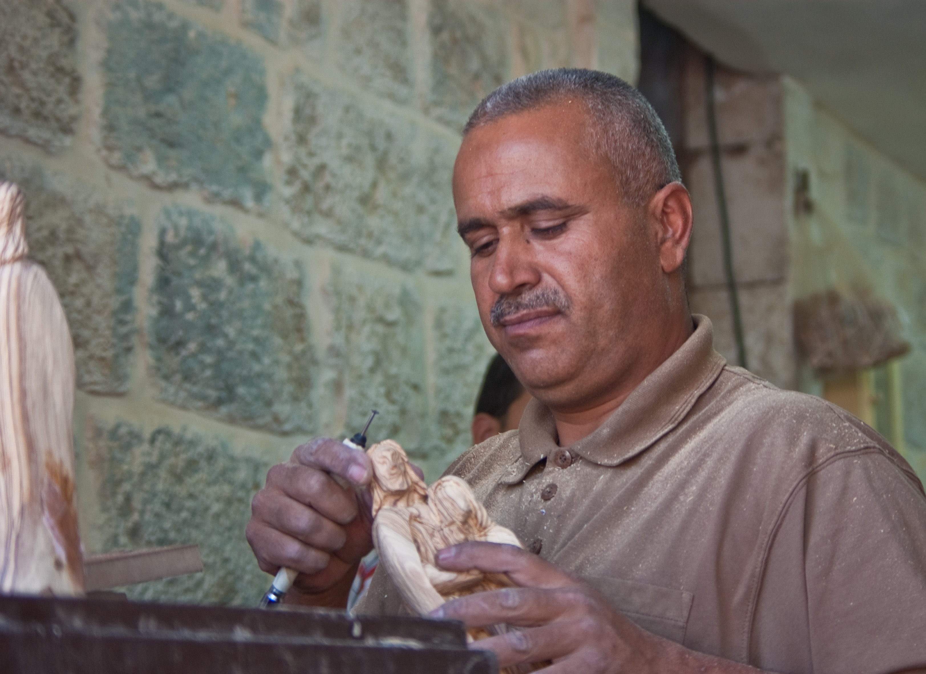 sculptor on olive wood in Bethlehem